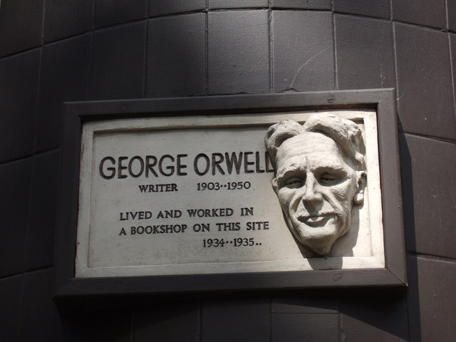 George Orwell in Hampstead On the corner of Pond Street and South End Road, opposite the Royal Free Hospital. The bookshop has long gone.